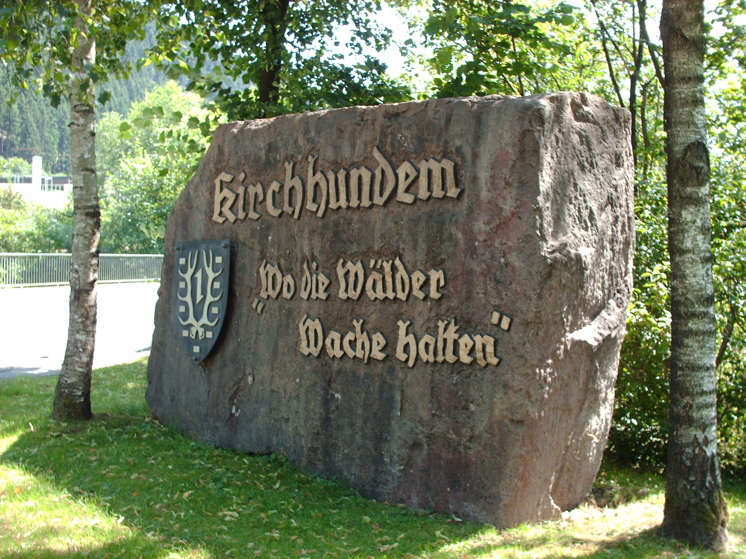 Motto stone, Kirchhundem, Germany check usage